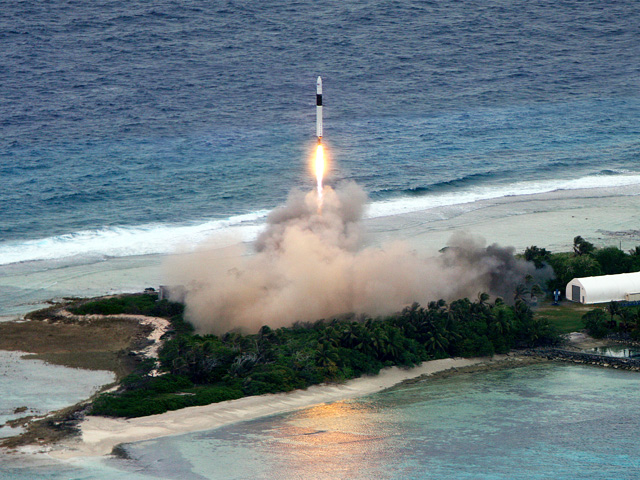 SpaceX Falcon 1 Flight 5 photographed from the air shortly after launch as it rises over Omelek Island, Marshall Islands. Most of the island is visible.